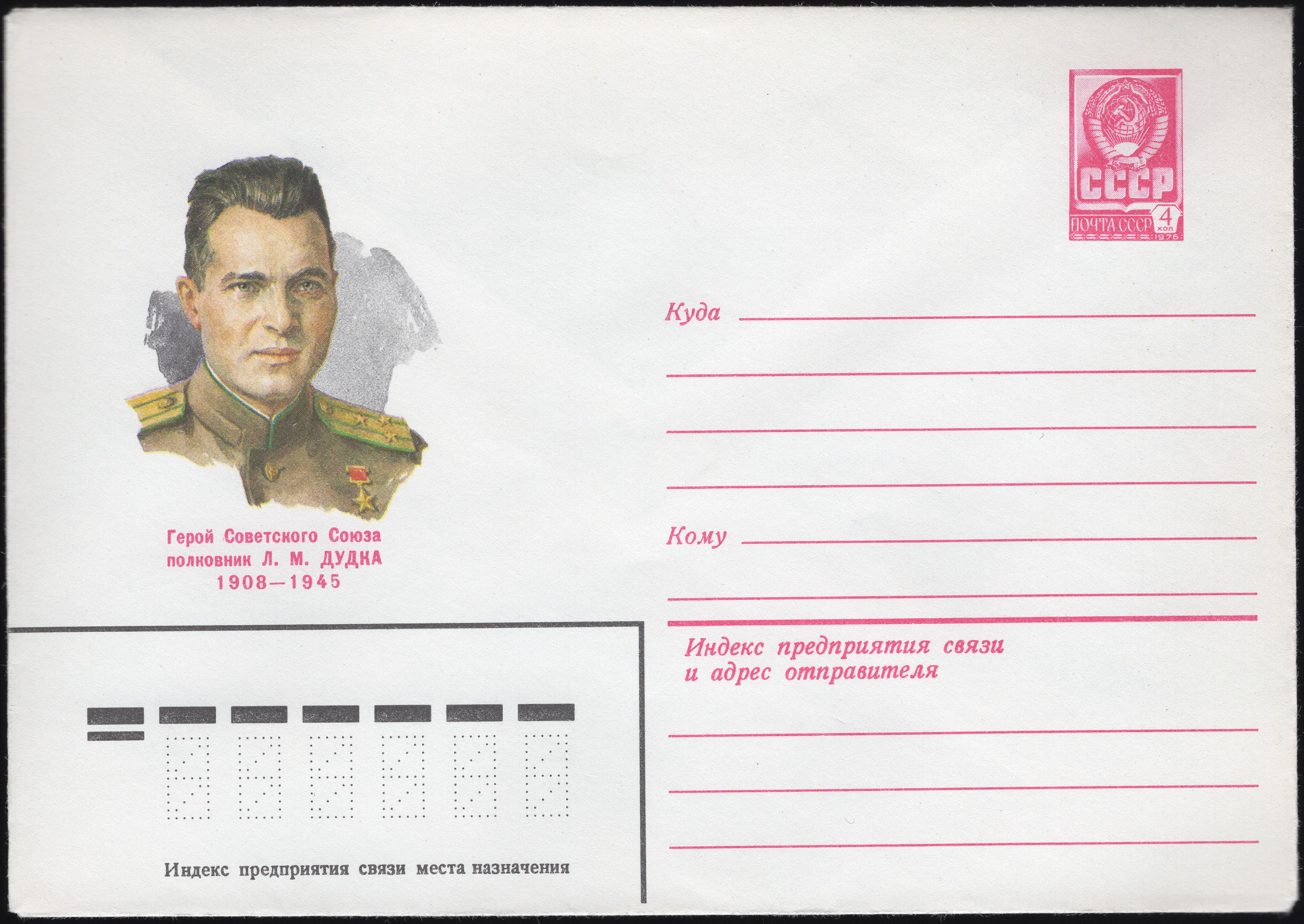 Hero of the Soviet Union Colonel Luka Dudka. 1908-1945. Series: Heroes of the Soviet Union. Artist Peter Bendel.